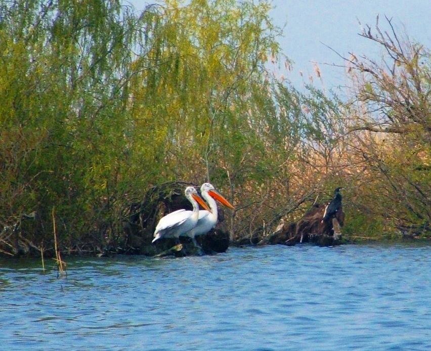 Dalmatian Pelicans in the Danube delta.